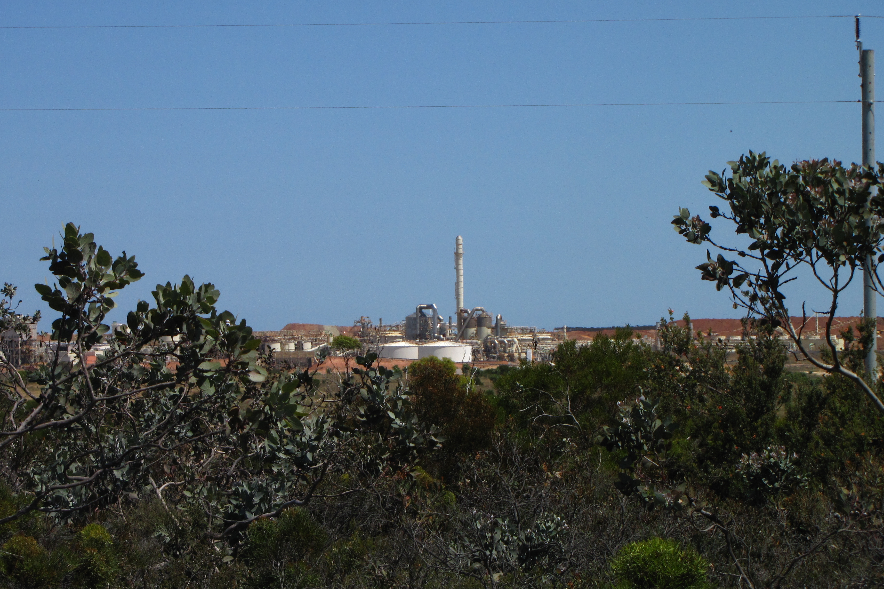 The Ravensthorpe Nickel Mine, Western Australia.